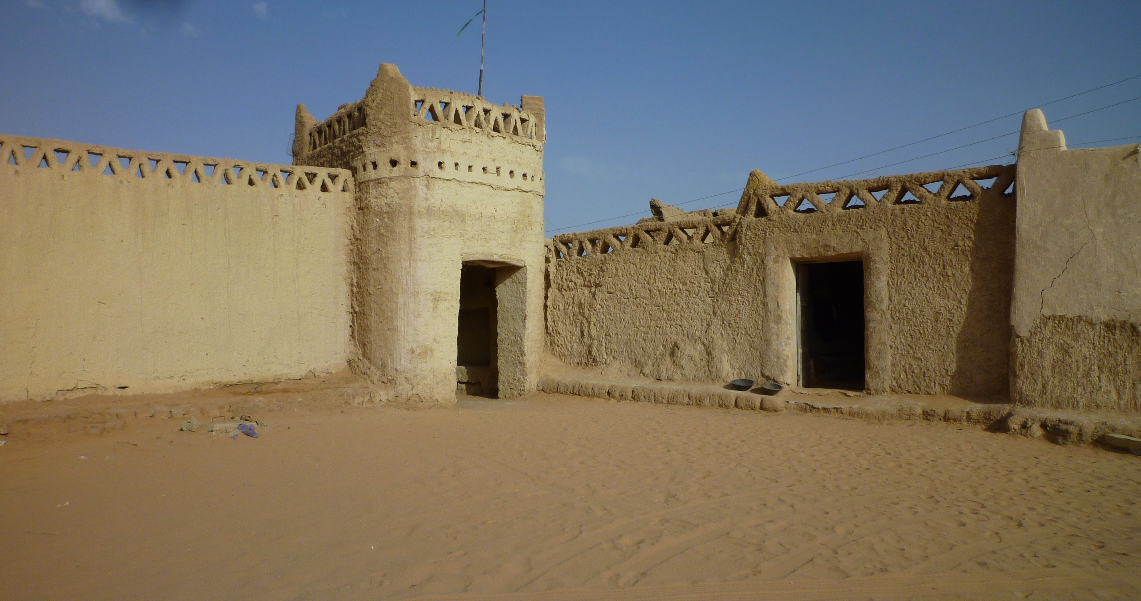 Fortress in Ghat, Fezzan region, Libya.